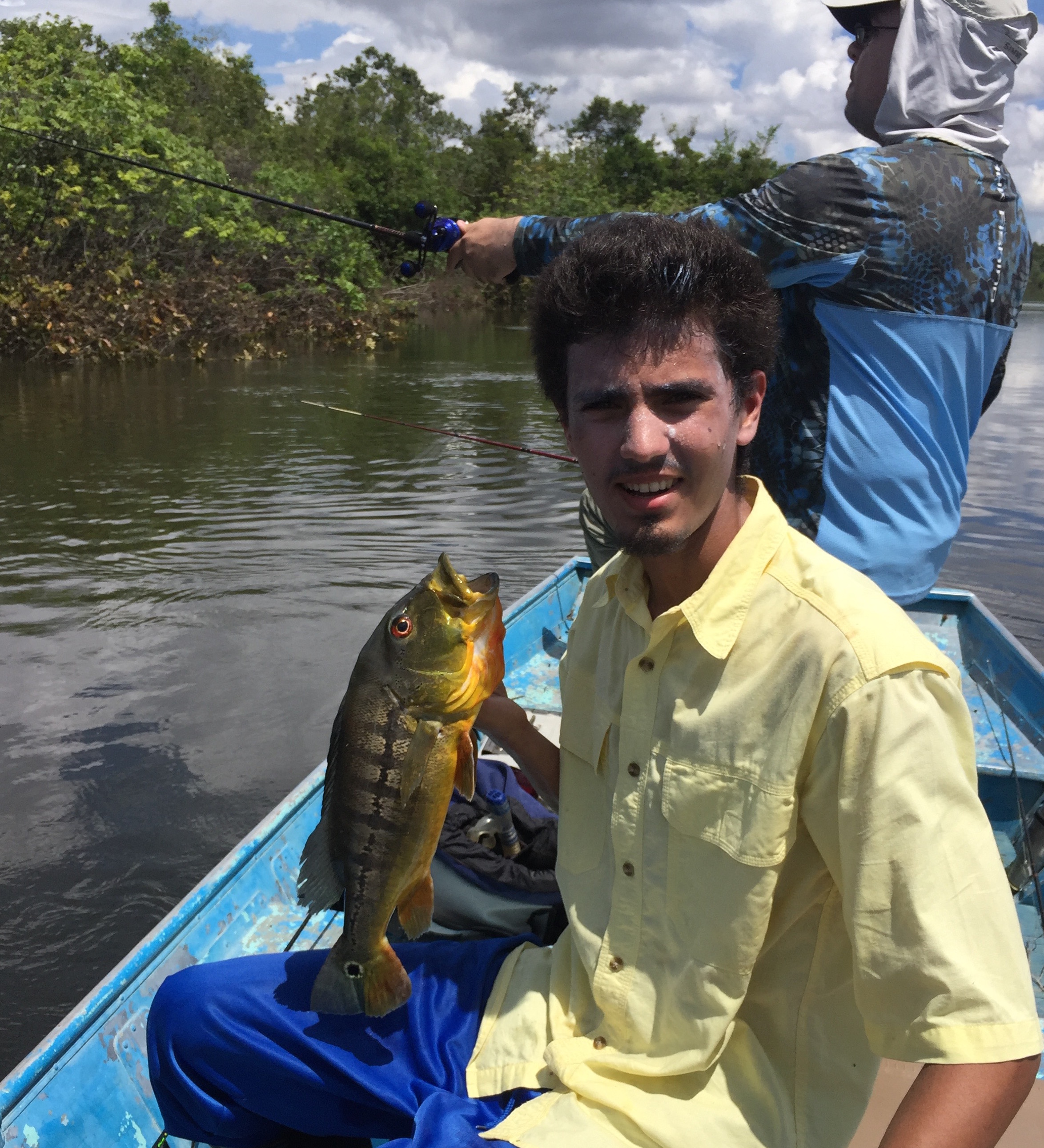 Cichla intermedia fished in the Cinaruco river. Apure, Venezuela.